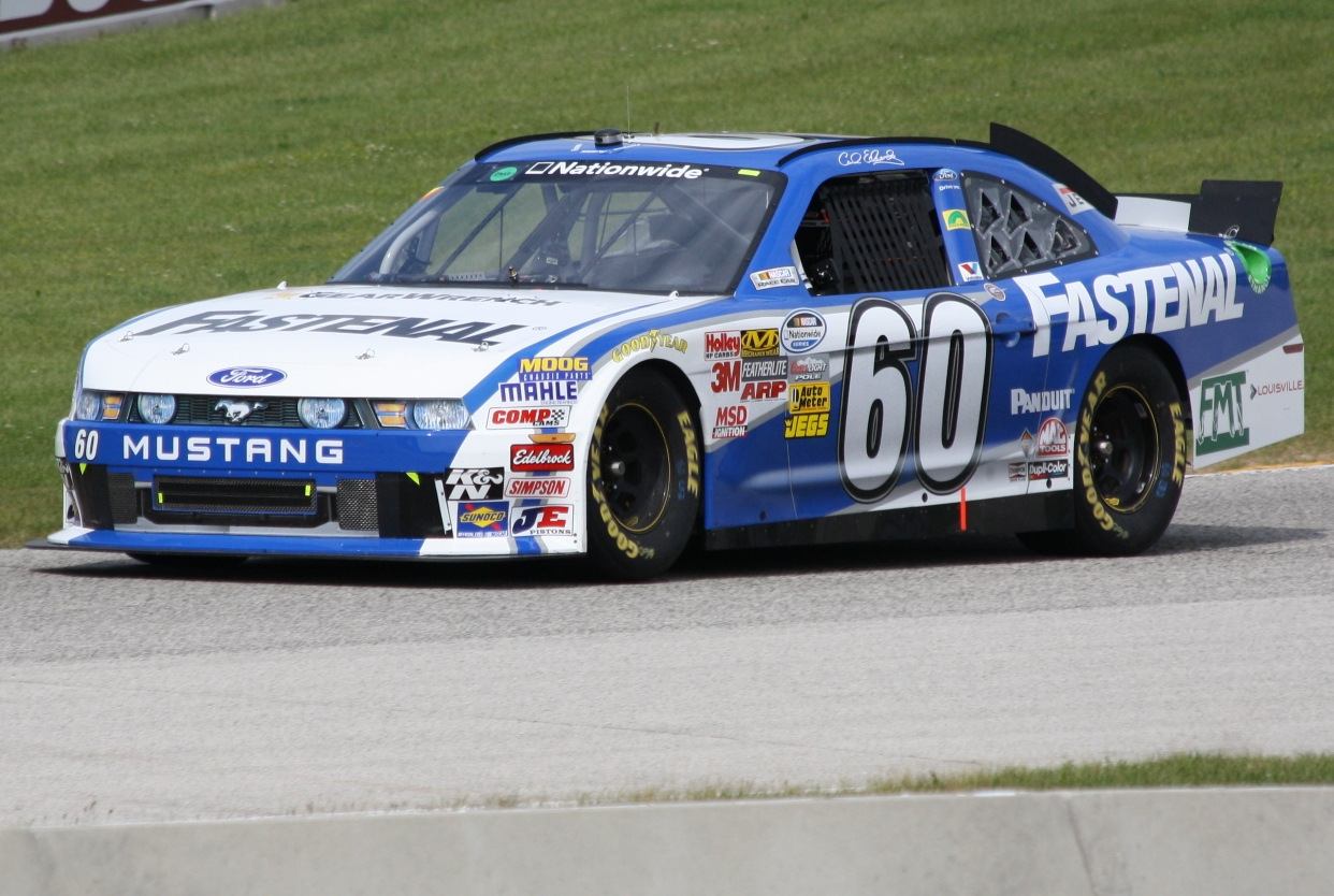 NASCAR driver Billy Johnson racing his stock car at Road America at the 2011 Bucyros 200 Nationwide Series race. He raced in a car that was supposed to be driven by Carl Edwards.